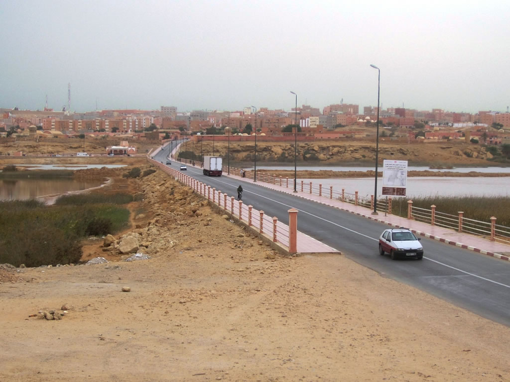 The road into El Aaiún—Laayoune from the north crosses the Saguia el-Hamra, a seasonal river where flamingos can be seen.